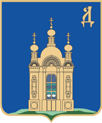 Dobryanka (Perm krai), coat of arms